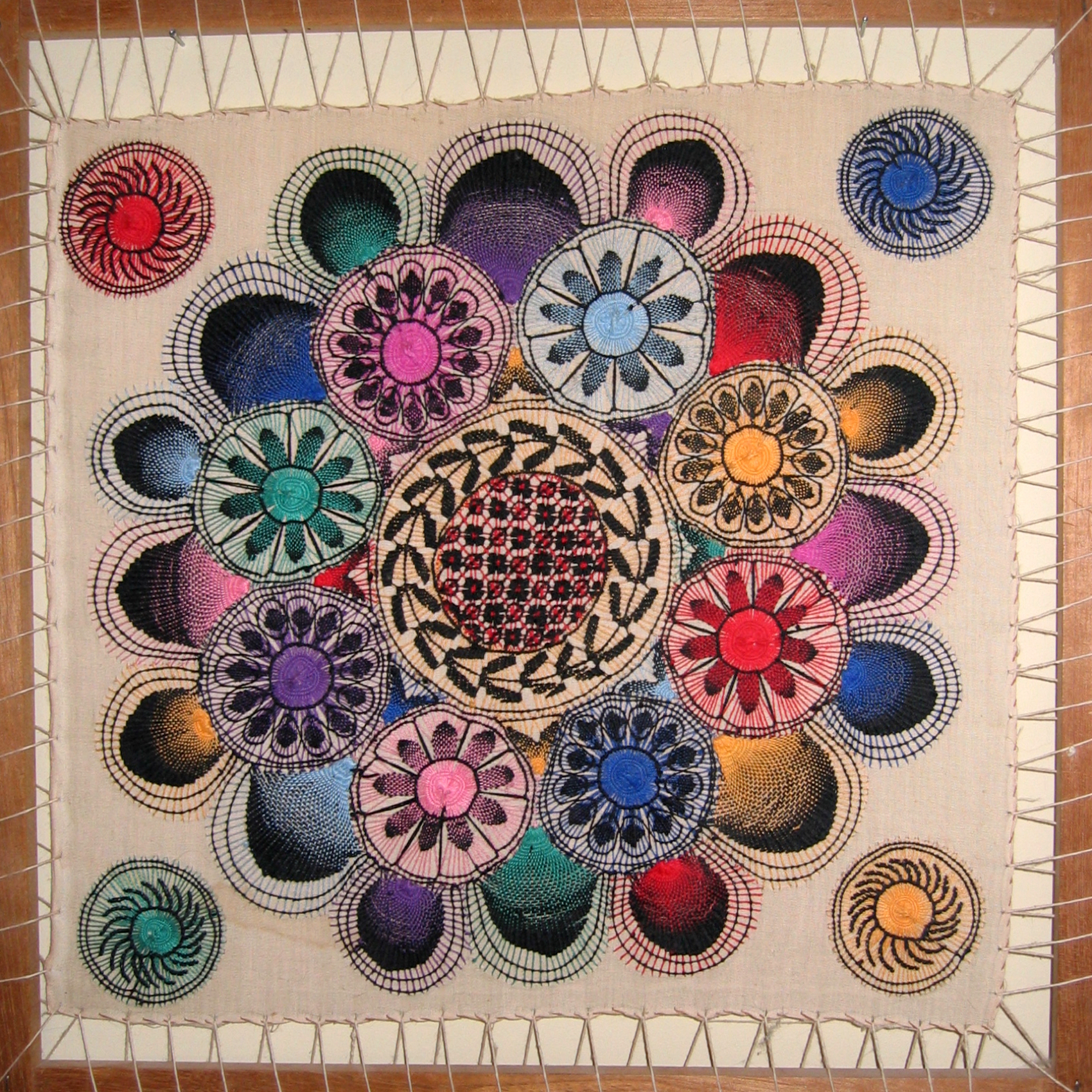 Hand-made ñandutí lace, acquired in 1986 in Asunción, Paraguay.